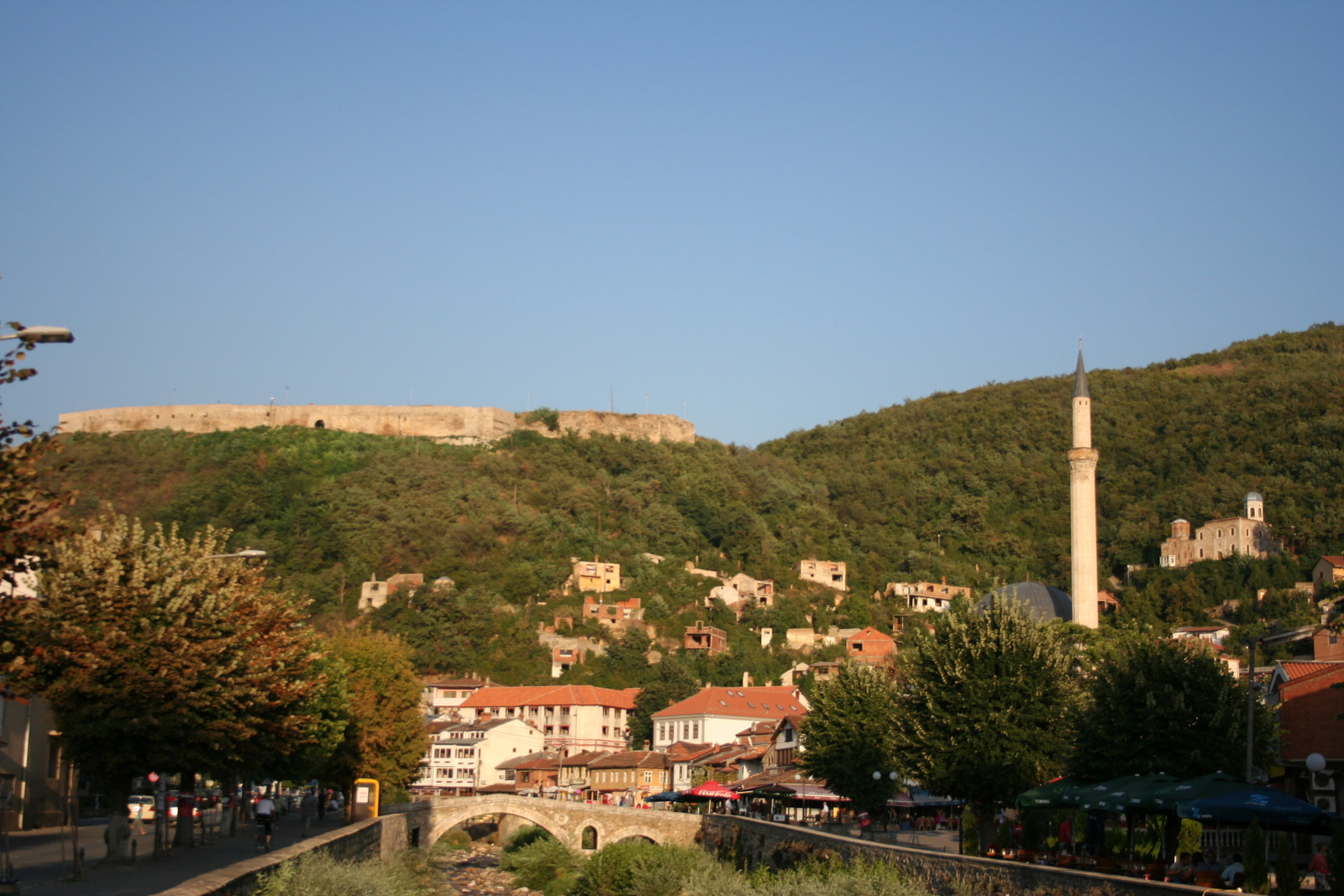 Prizren Kosovo